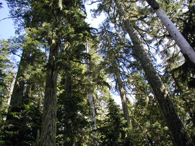 Old growth forest. Mostly Pseudotsuga menziesii but other tree species also present